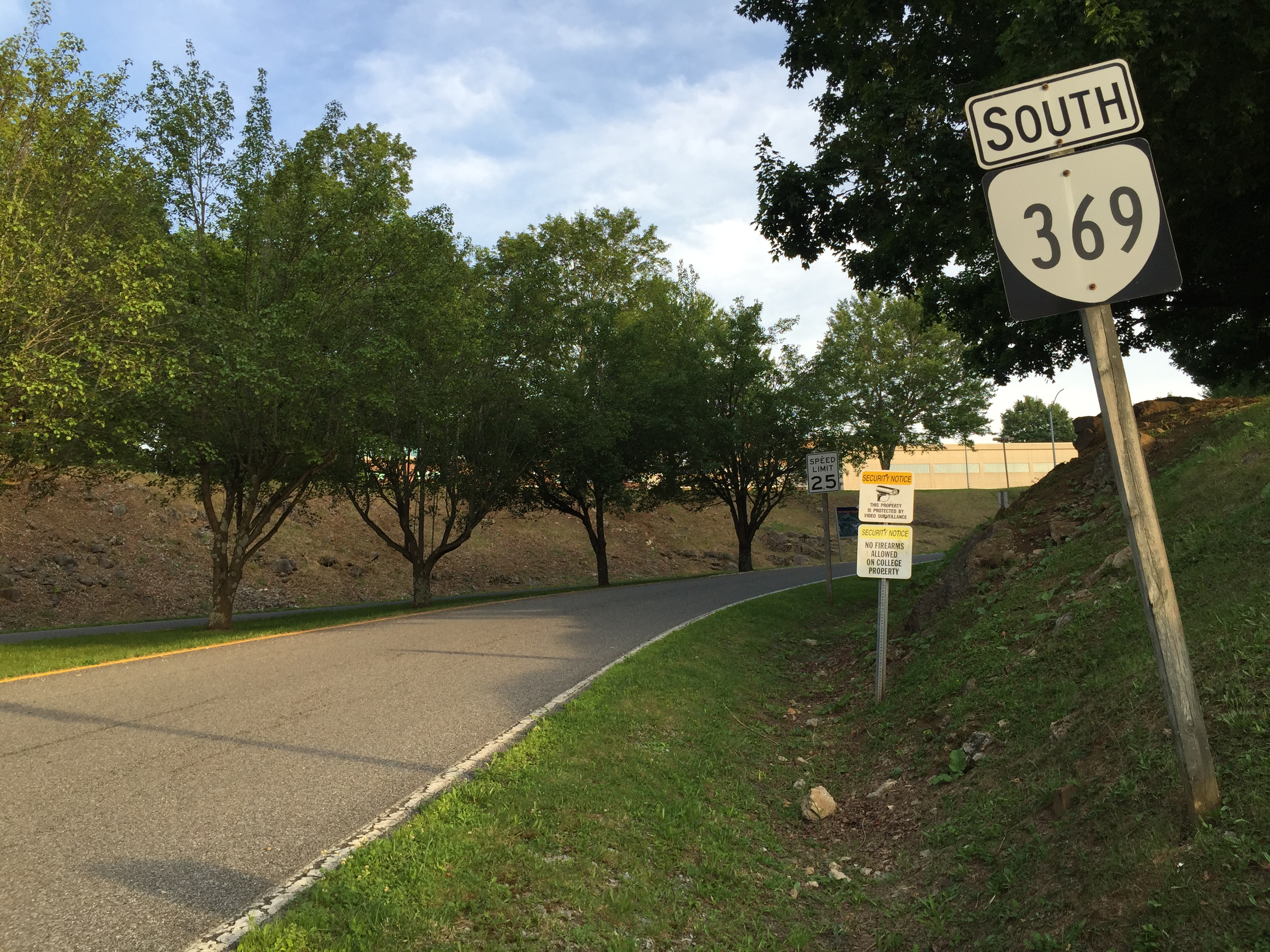 View south along Virginia State Route 369 (Community College Road) at U.S. Route 19 (Trail of the Lonesome Pine) at Southwest Virginia Community College in Tazewell County, Virginia